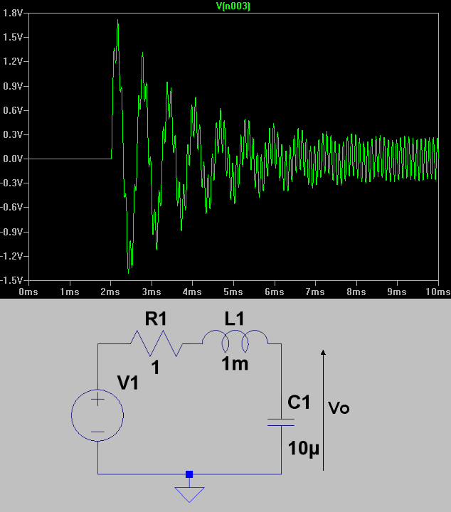 Simulation of a transient waveform. The generator produces a 10 kHz tone at 10Vp-p